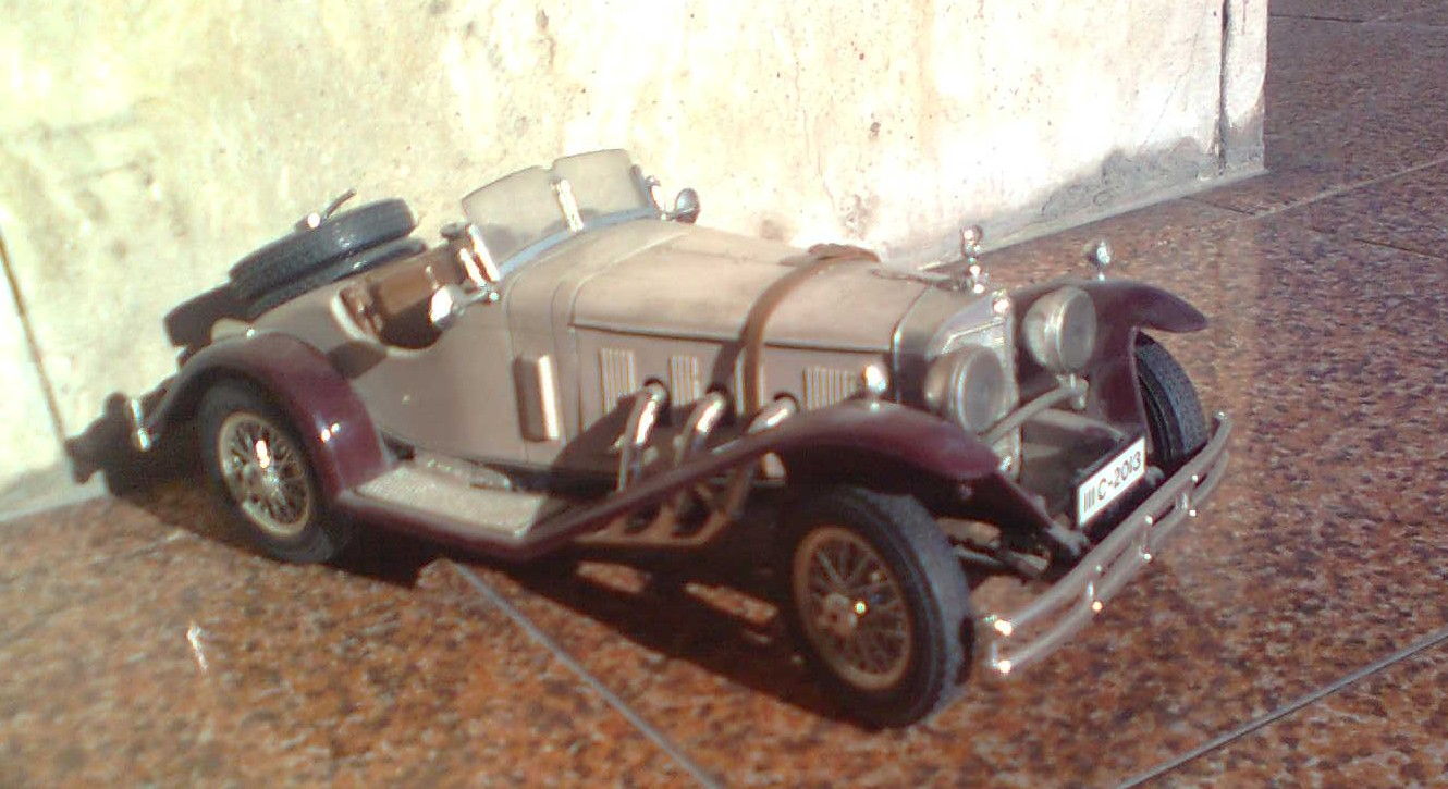 Mercedes SSK model by Bburago. Photo taken in Bilbao (Basque Country, Europe)